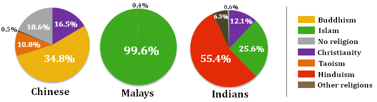 Pie charts showing religions by ethnic groups in Singapore, based on the 2000 census. (Created using spreadsheet software.)